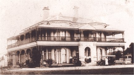 "Nyrambla" 21 Henry Street in its early days. Note the verandahs are not enclosed